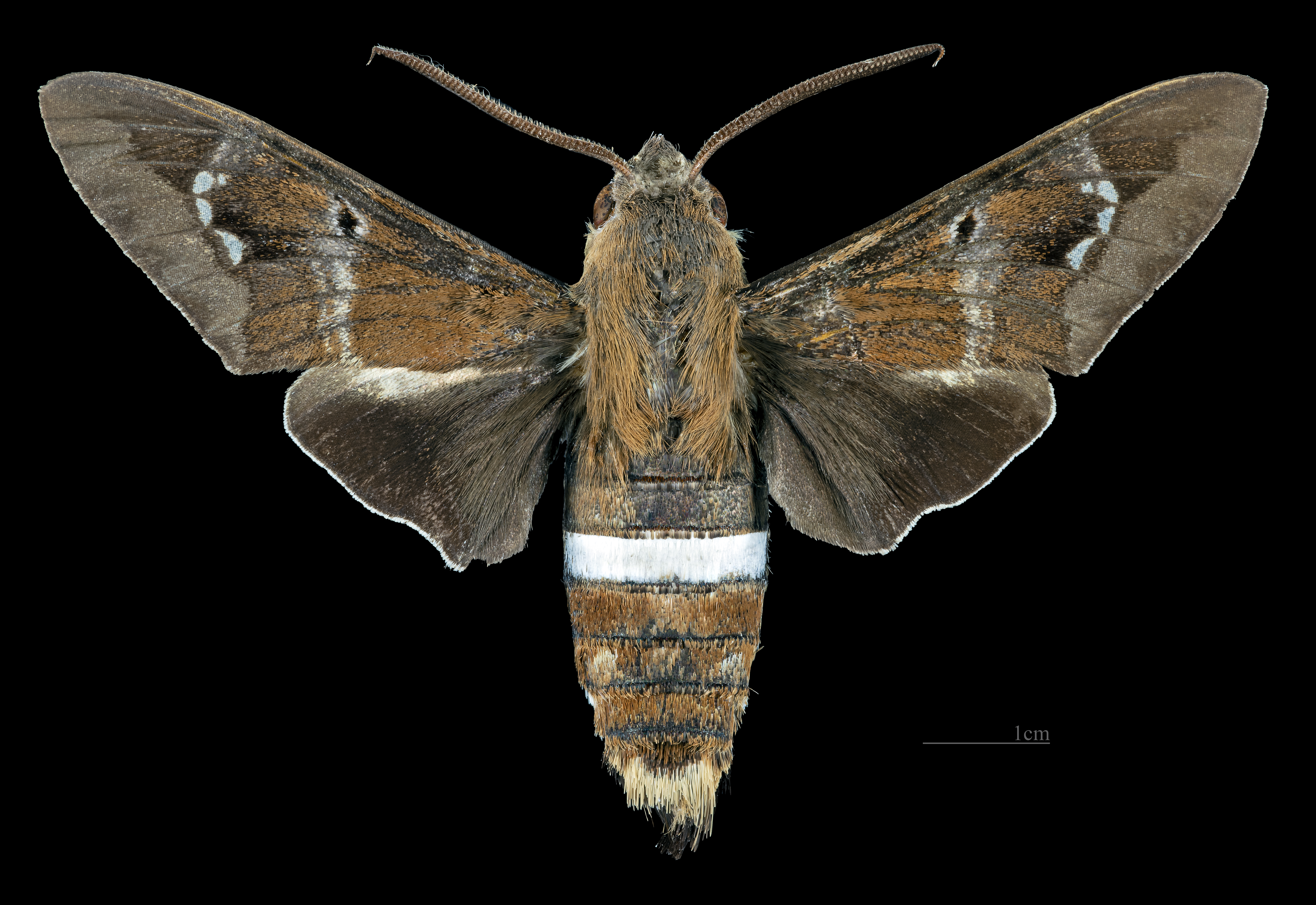 Aellopos clavipes - Dorsal side Collection of the Mathematician Laurent Schwartz